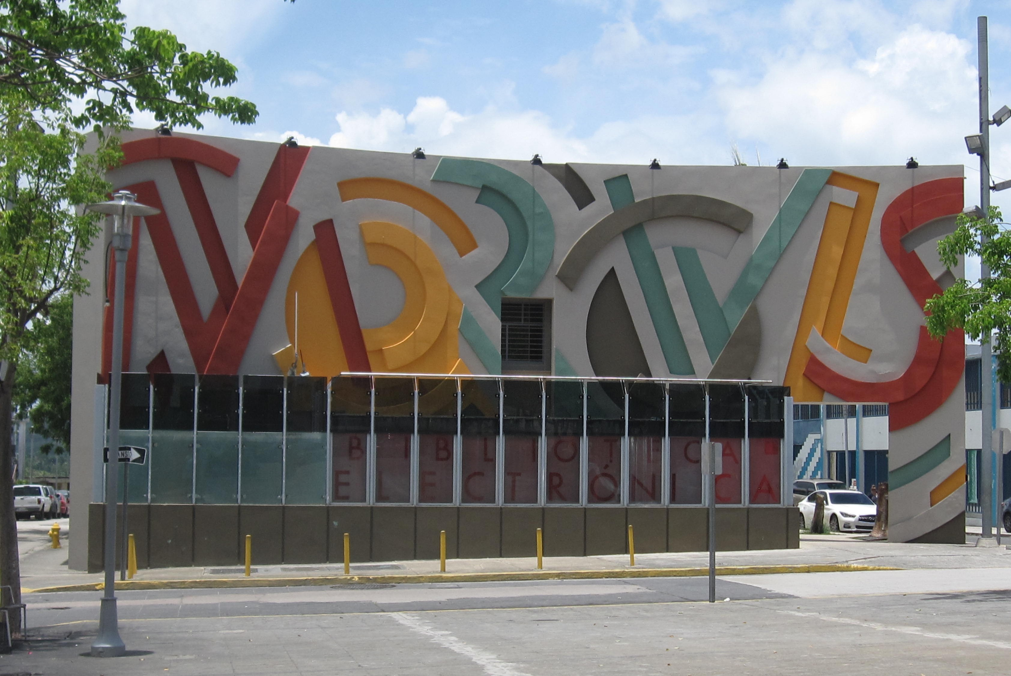 Biblioteca electrónica Julia M. Chéverez Marrero by Emilio Martínez and Luis Abraham